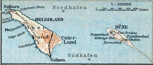 Map of Heligoland, Germany, 1910